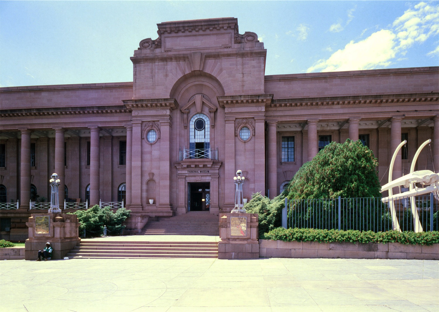 This media shows a South African Protected Site with SAHRA file reference 9/2/258/0100.